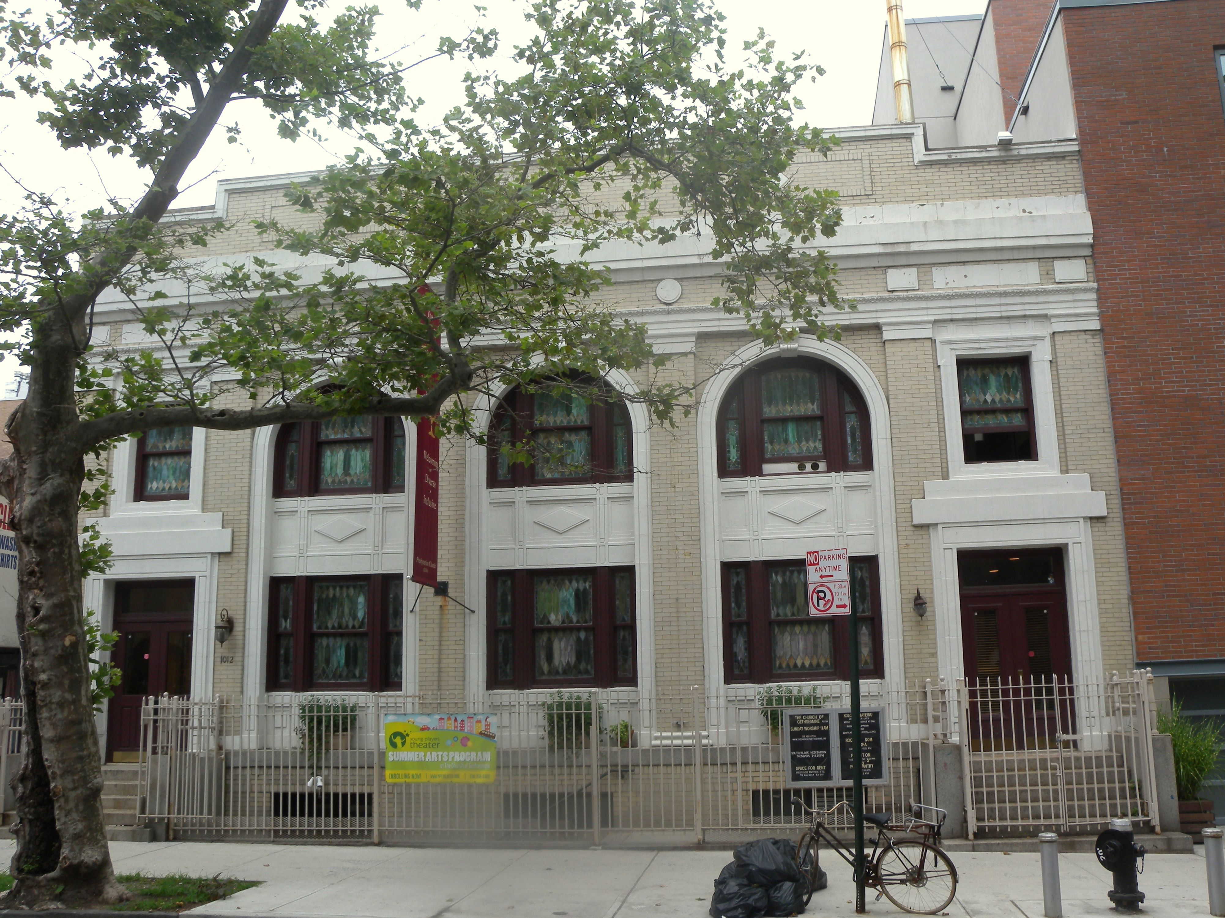 Looking west across 8th Avenue at Gethsemane Church on a cloudy day.